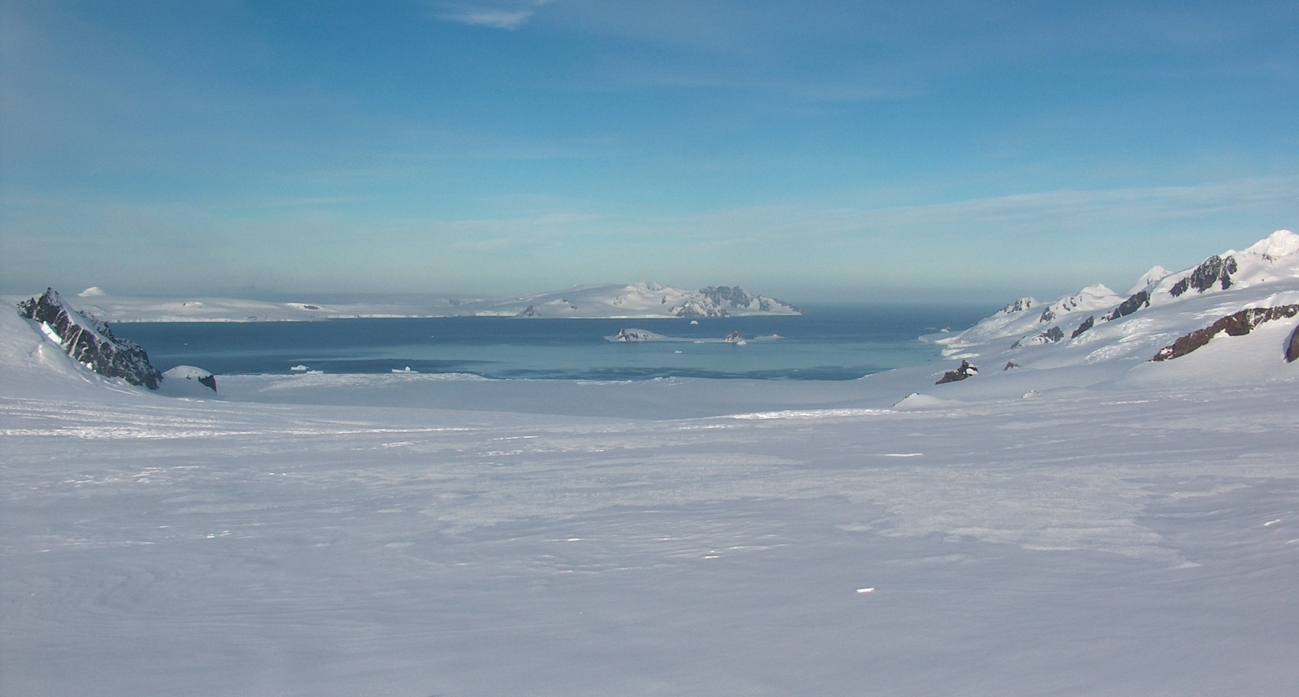 Longitudinal view of Huron Glacier in eastern Livingston Island in the South Shetland Islands, with McFarlane Strait, Half Moon Island and Greenwich Island in the background. Viewpoint location: Camp Academia on Livingston Island, in the South Shetland Islands Viewpoint elevation: 541 meters Camera: HP PhotoSmart C945 (V01.54)